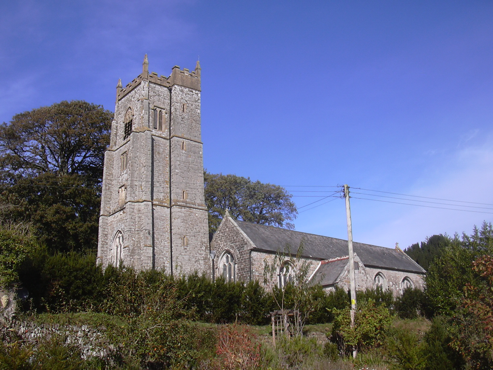 St Kew - Church of St James - tower.